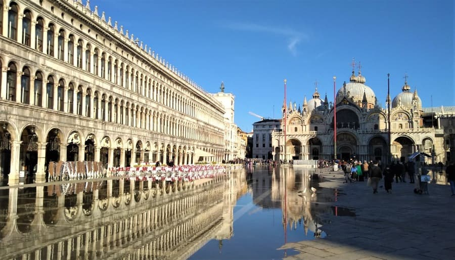 Reflections in November on Saint Mark's Square, Venice